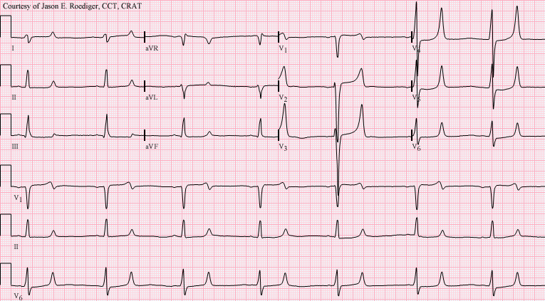 12-lead ECG of a 46-year-old white man with chronic renal disease. Combined electrolyte imbalance at panic values; hyperkalemia (7.4 mg/dL) with hypocalcemia (6.4 mg/dL). Note the classic narrow-based, peaked T-waves and the prolonged QT intervals secondary to long ST-segments.